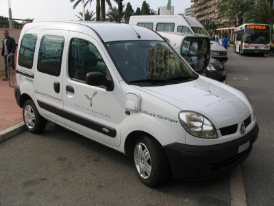 I made this photo end of March 2007 on the EVER Monaco 2007. It shows a Renault Kangoo plug-in hybrid parked ready for test driving in front of the Grimaldi center. I had there also an opportunity for a short test drive in Monaco. The photo is published on The small 400x300 resolution is GFDL available. The original photo is available from me.